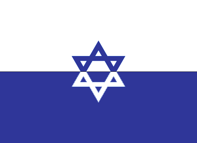 Flag of the Jewish Combat Organization - ŻOB